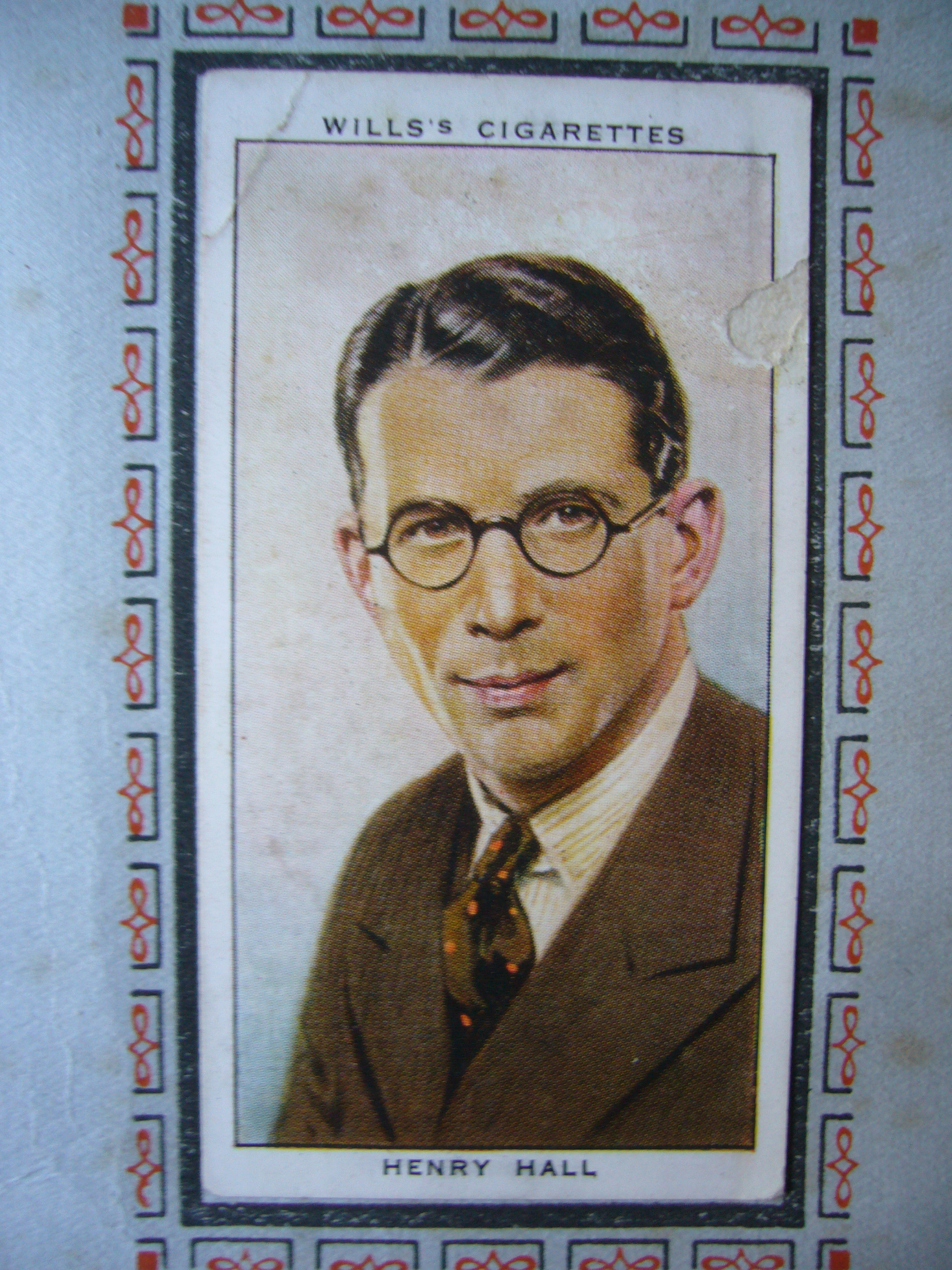 Wills cigarette card of Henry Hall stuck in album mid 1930s